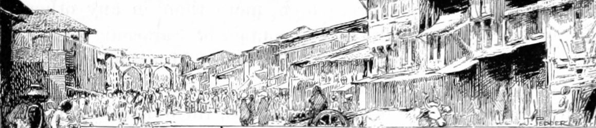 Image taken from: Title: "Picturesque India. A handbook for European travellers, etc. [With maps.]" Author: CAINE, William Sproston. Shelfmark: "British Library HMNTS 010057.ee.7.", "British Library OC ORW.1986.a.2996" Page: 99 Place of Publishing: London Date of Publishing: 1890 Publisher: G. Routledge & Sons Issuance: monographic Identifier: 000567709 Note: The colours, contrast and appearance of these illustrations are unlikely to be true to life. They are derived from scanned images that have been enhanced for machine interpretation and have been altered from their originals. If you wish to purchase a high quality copy of the page that this image is drawn from, please order it here. Please note that you will need to enter details from the above list - such as the shelfmark, the page, the book's volume and so on - when filling out your order. Explore: Find this item in the British Library catalogue, 'Explore'. Open the page in the British Library's itemViewer (page: 99) Download the PDF for this book Click here to see all the illustrations in this book and click here to browse other illustrations published in books in the same year. Please click on the tags shown on the right-hand side for other ways to browse the illustrations.